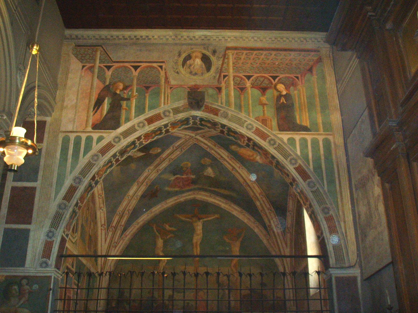 San Clemente church, frescos by masolino inside view, in Rome, Italy